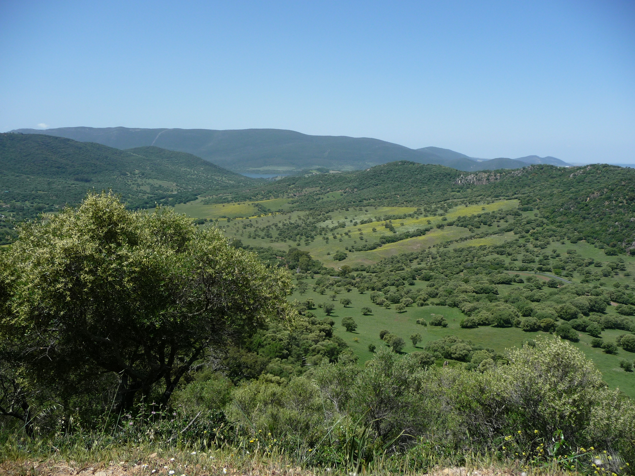 Montes de Propio de Jerez de la Frontera (Andalusia, Spain)